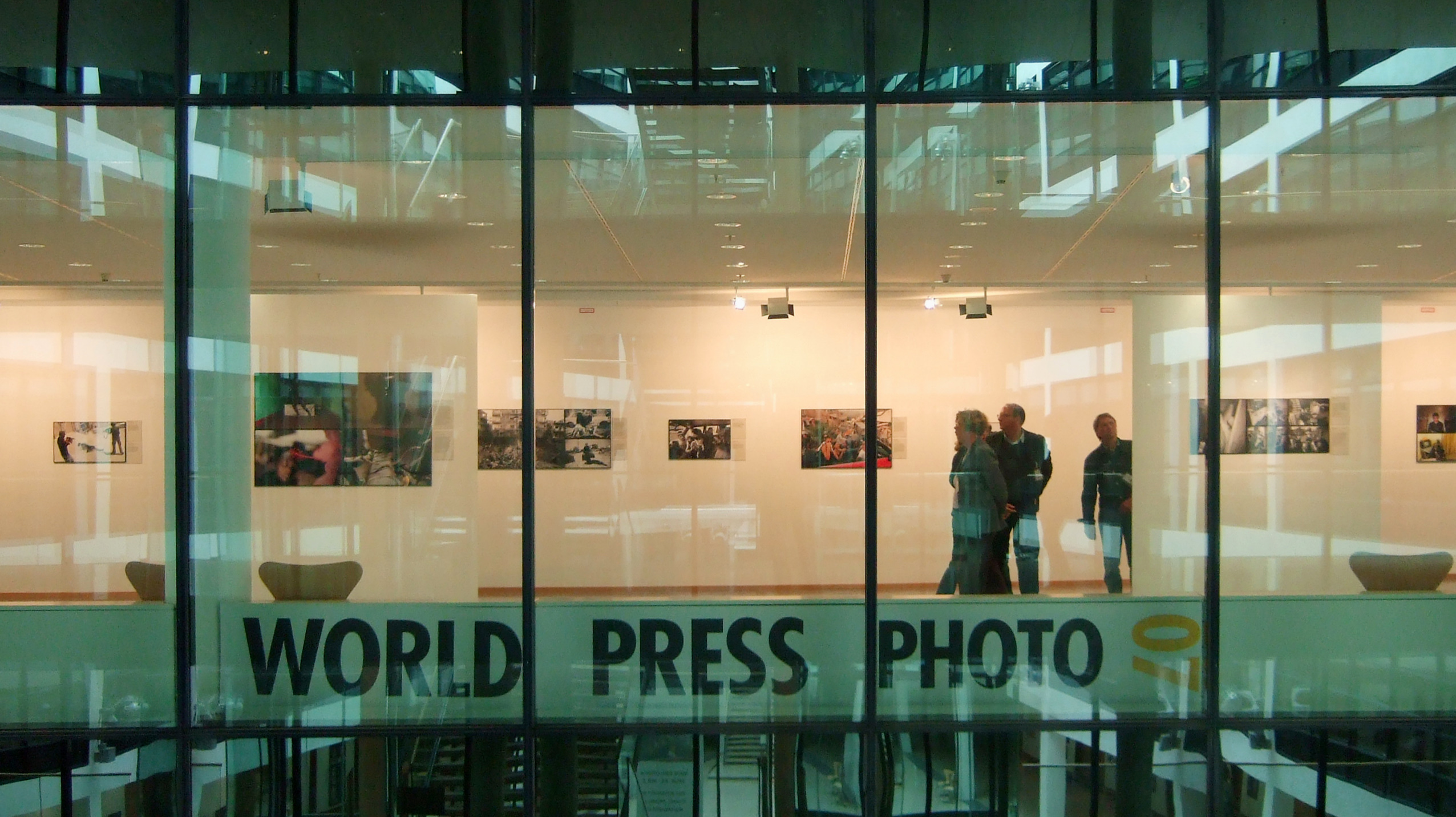 World Press Photo 07